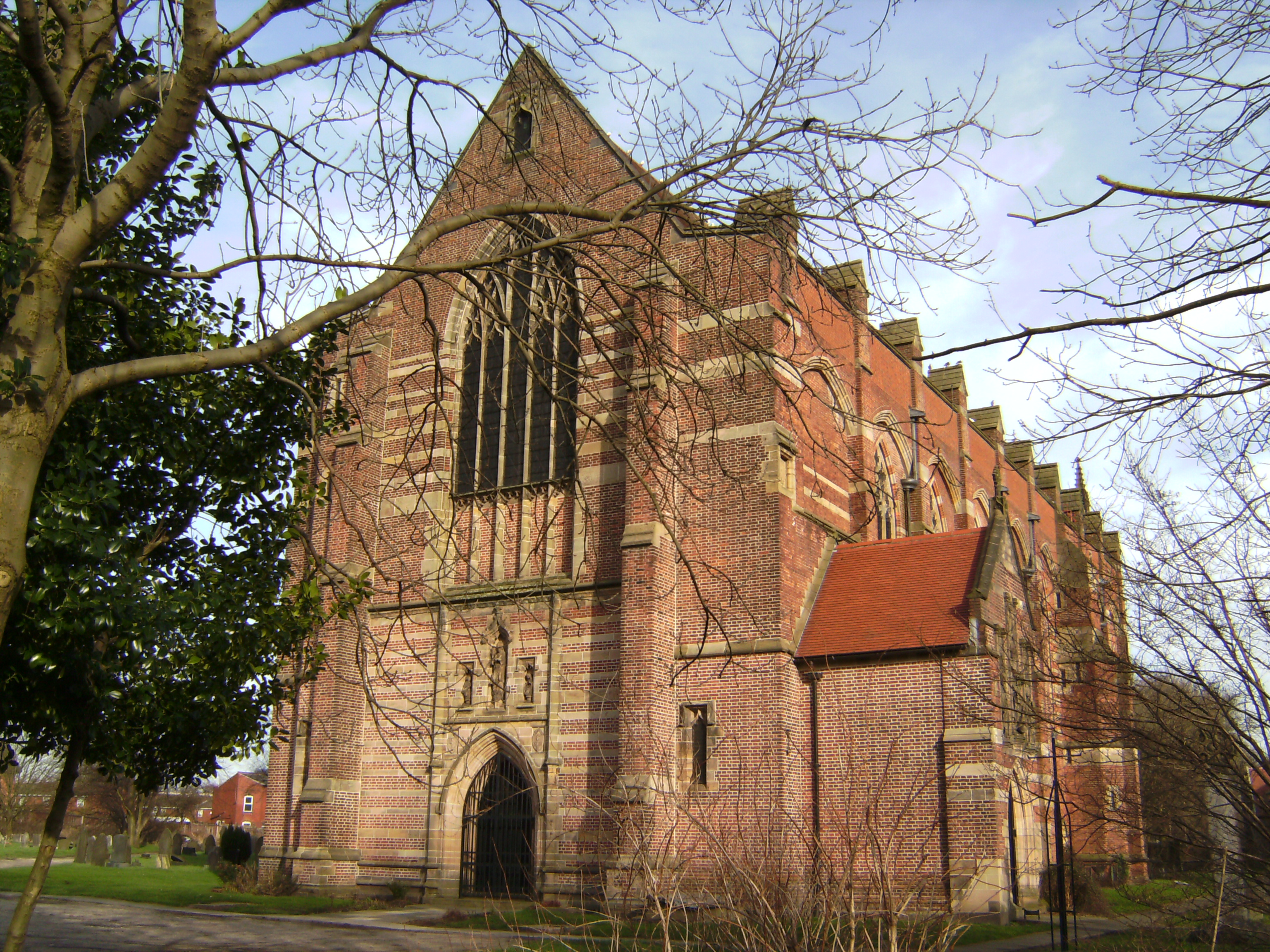 St Augustine's parish church, Bolton Road, Pendlebury, Greater Manchester, seen from the southwest